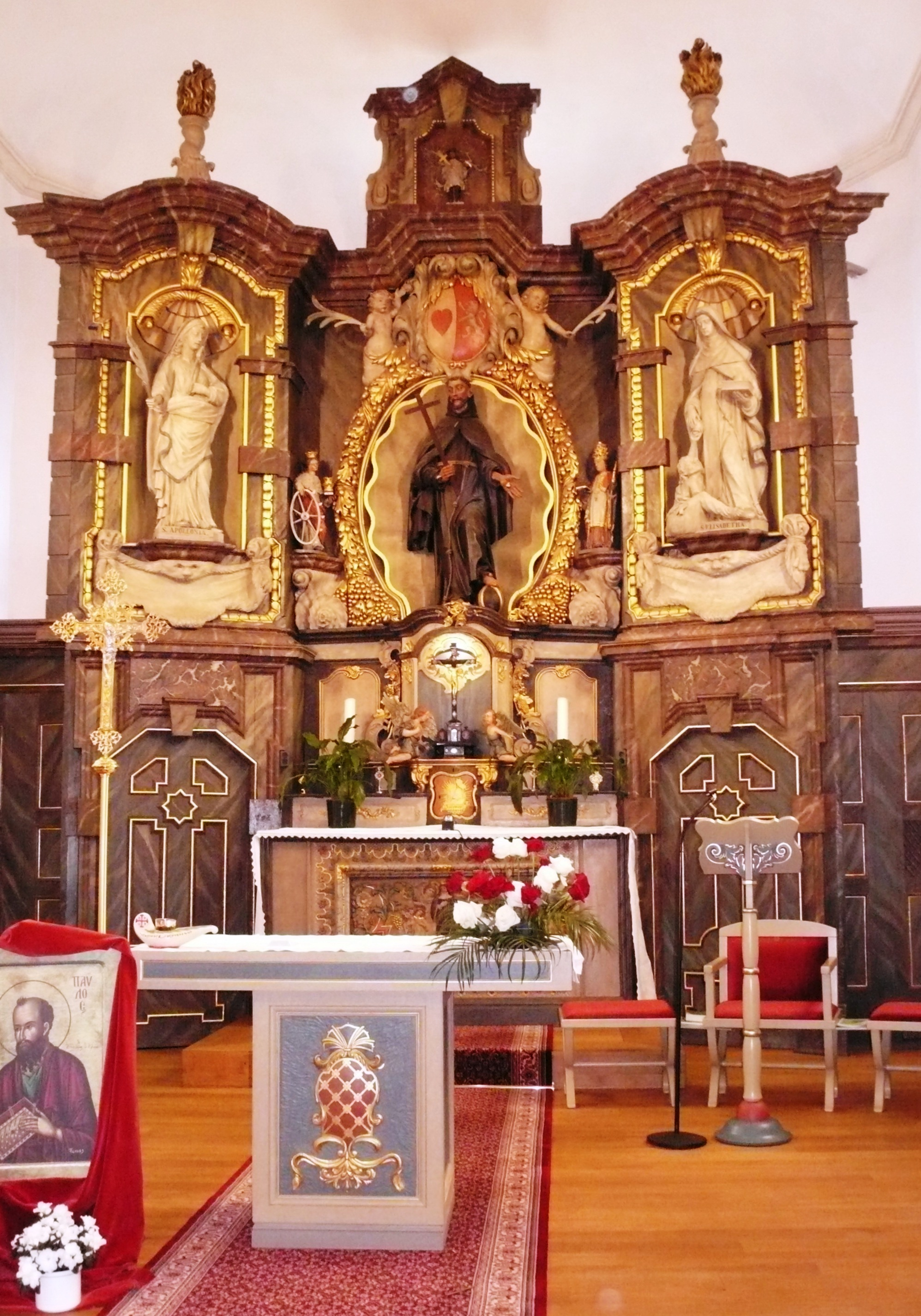 Altar in Contern church, Luxembourg.